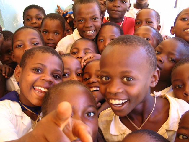 Schoolchildren in North Tanzania